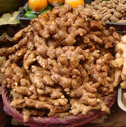 Two varieties of ginger as sold in Haikou, Hainan, China.